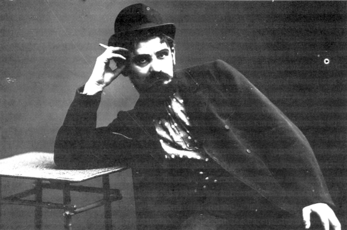 Photograph of the Finnish actor Pauli Pohjola (1890–1947) as Fedya in Lev Tolstoy’s play The Living Corpse.